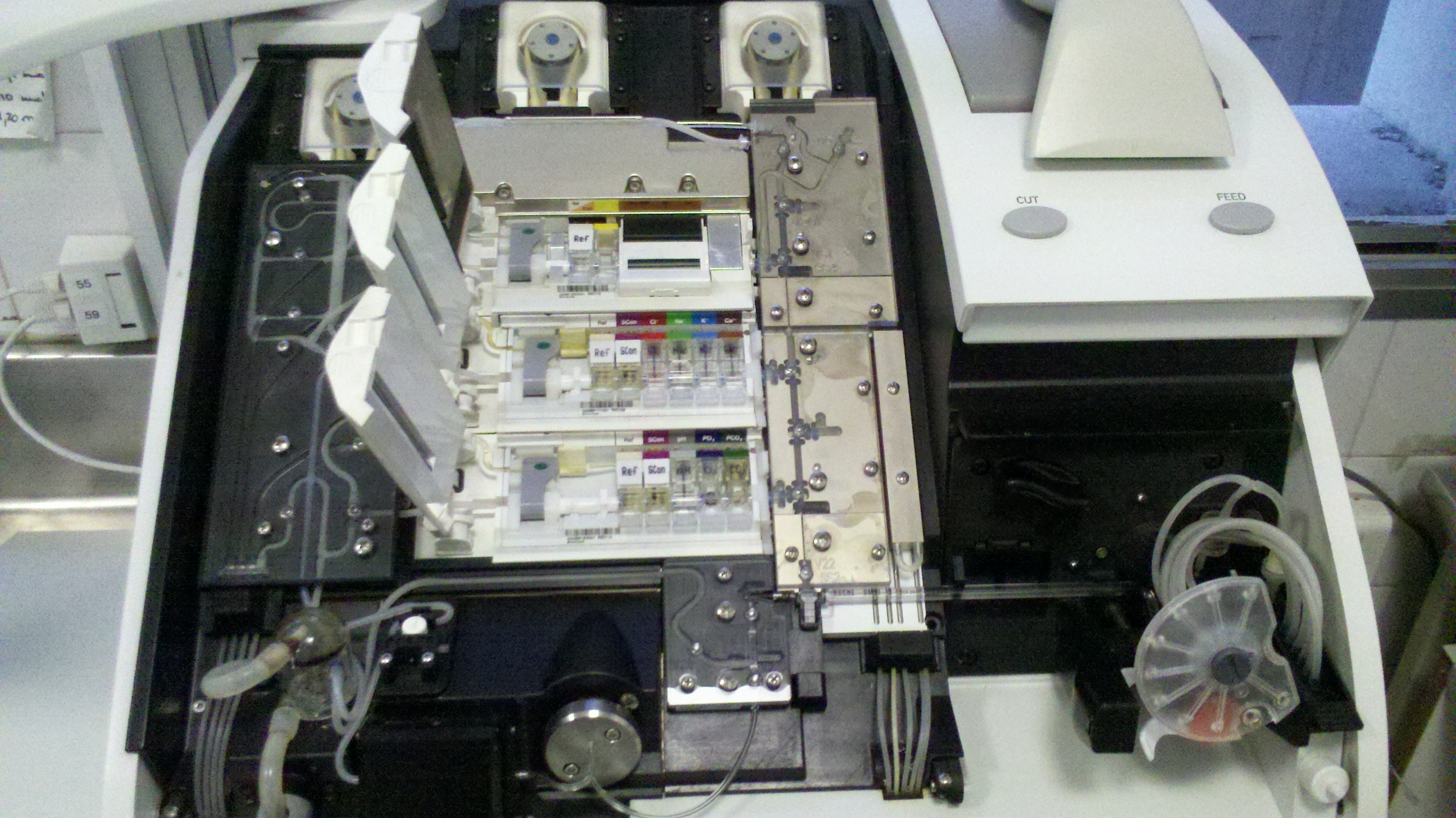 Cobas b221 (Roche Diagnostics) - Detail of modules (open) from the top: MMS module, Urea, Glucose, and Lactate, enzimatic electrode. ISE module, Na+, K+, Cl- and Ca2+ selective electrodes. GS module, pH, pO2, pCO2, electrodes SPF module: spectrophotometric module, (Hb, HHb, O2HB, CNHb, COHb, MetHB, BilT)